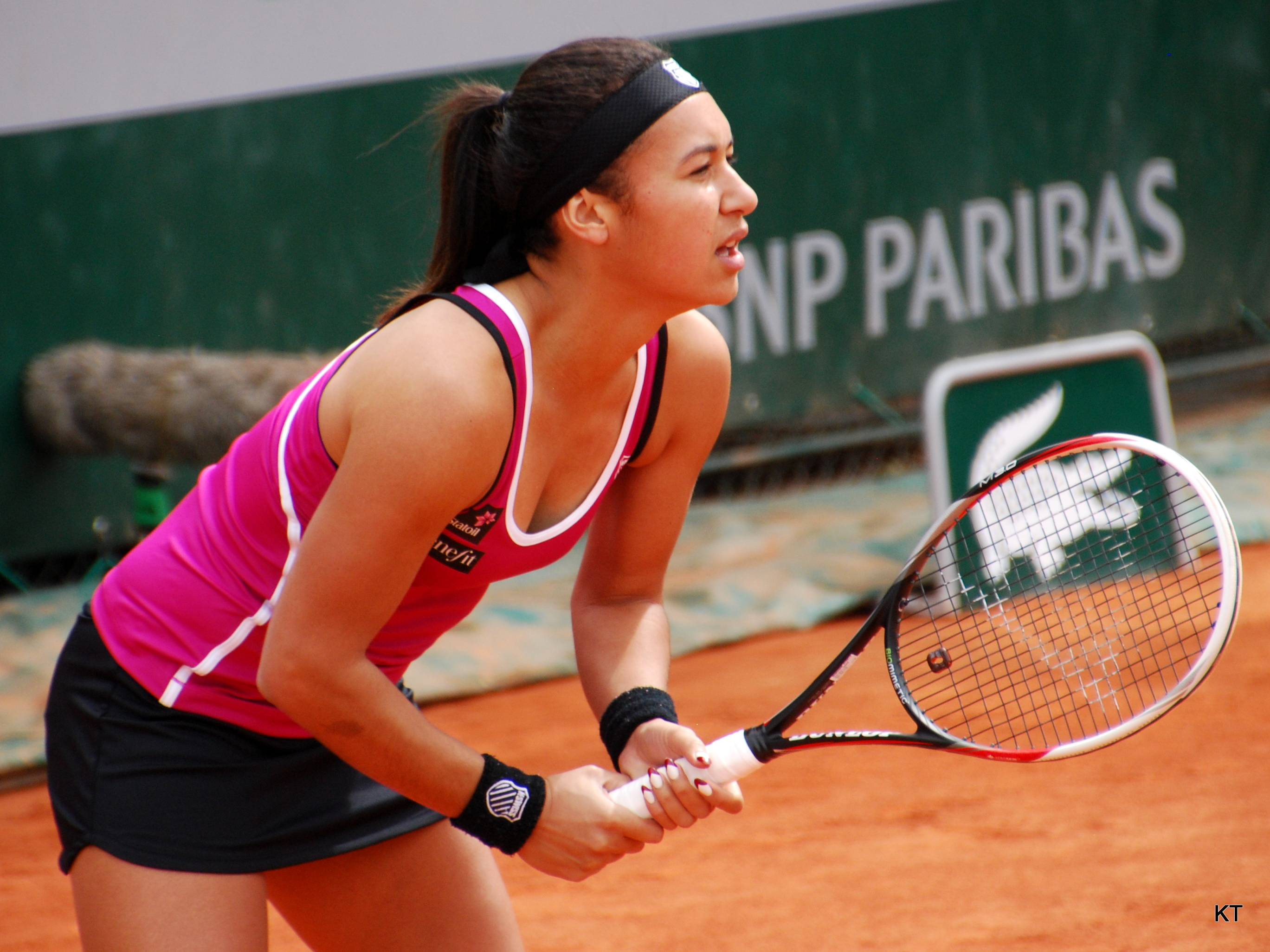 Heather Watson during her first round match with Stefanie Voegele. Stefanie won 6-4, 2-6, 6-4. Day 4 of Roland Garros 2013.